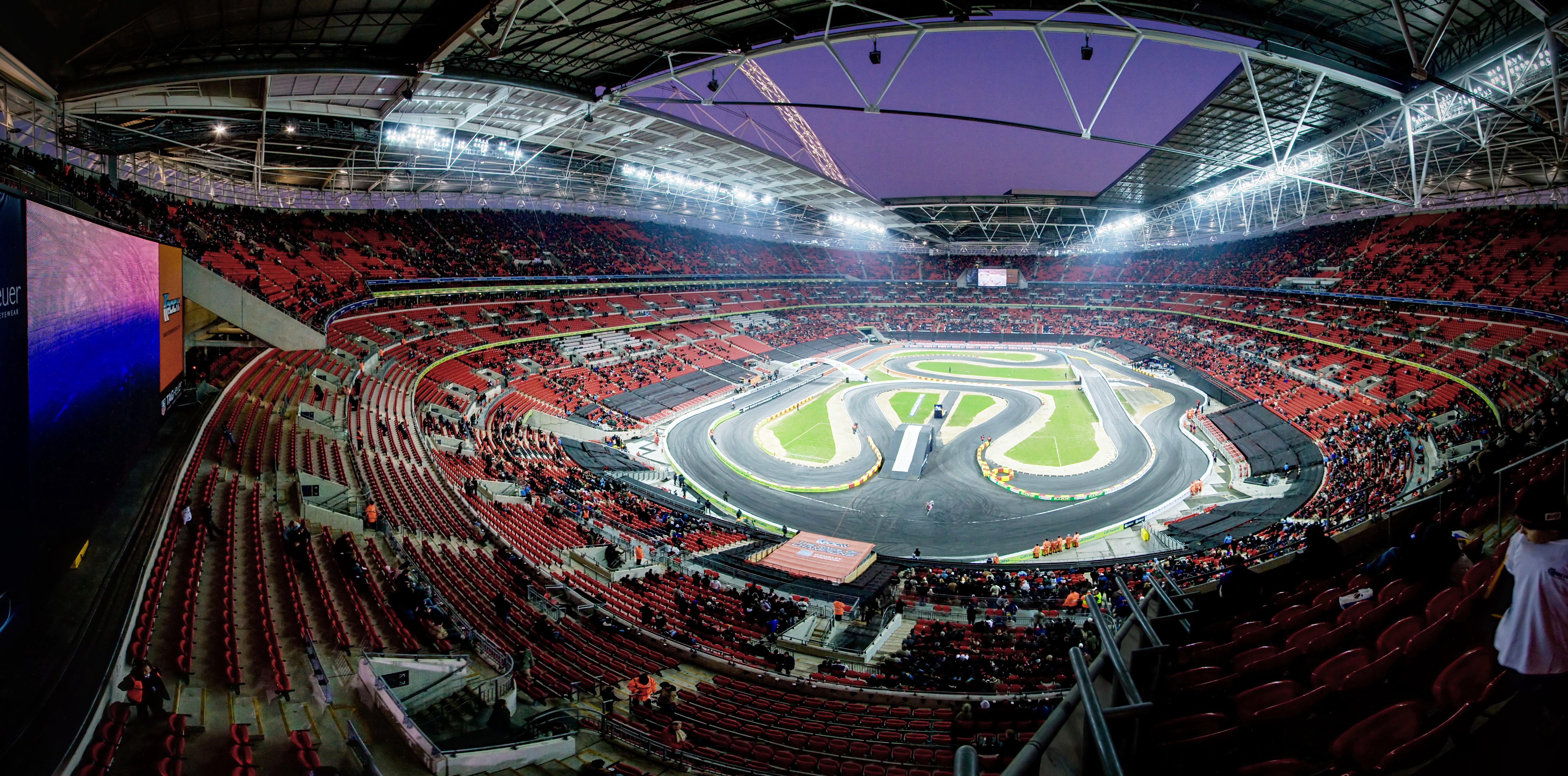 Panorama of Wembley Stadium, taken during the Race of Champions 2007.